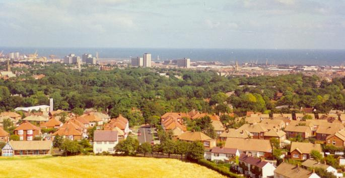 Sunderland taken from Tunstall Hill, August 1994 1989. Own camera - no copyright issues.